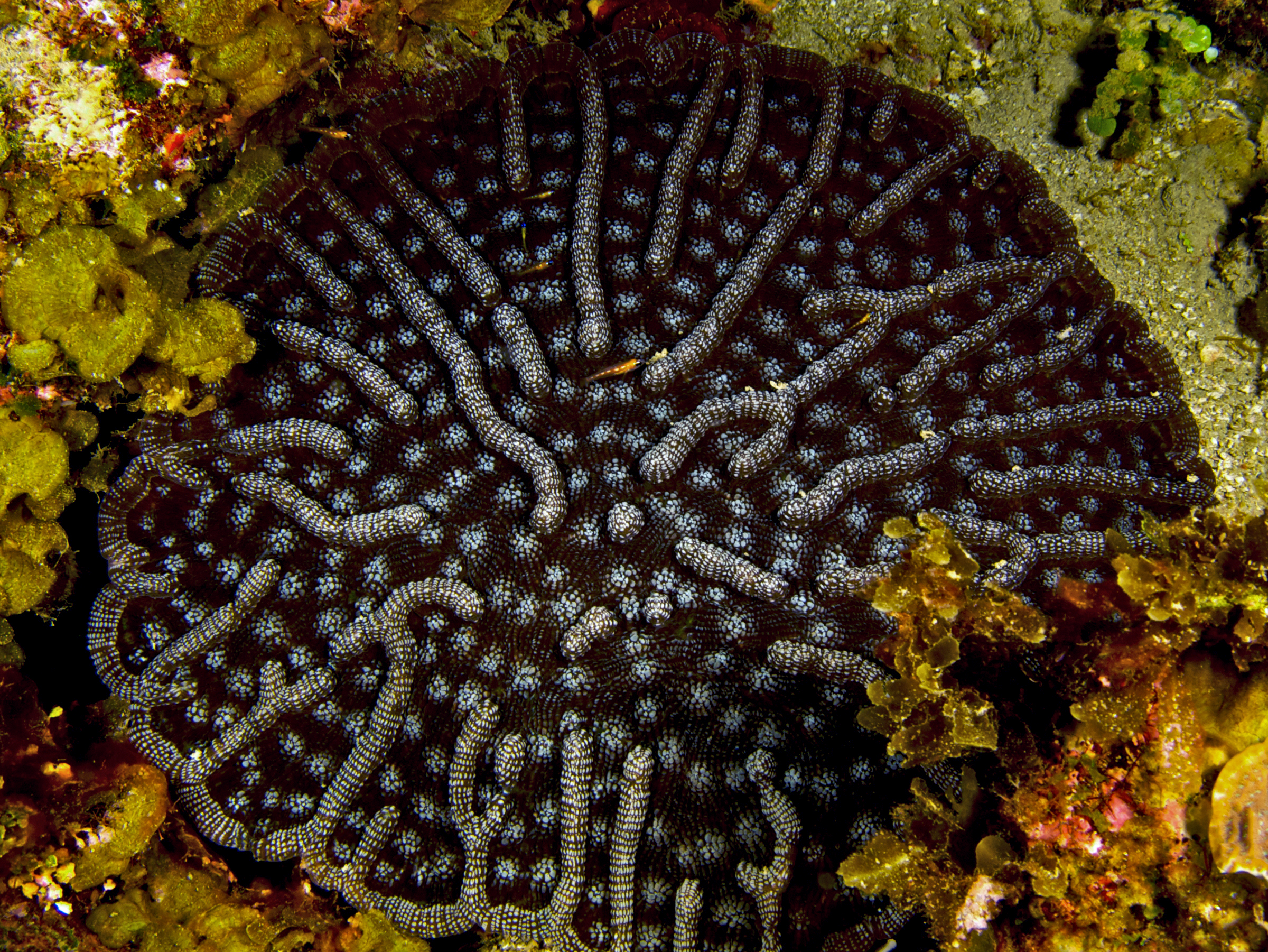 Mycetophyllia alliciae (Knobby Cactus Coral).